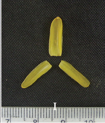 Amomum nilgiricum, corolla lobes